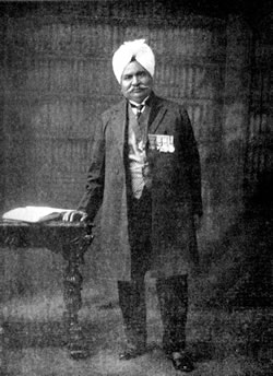 Sir Ganga Ram, a famous Punjabi philanthropist.